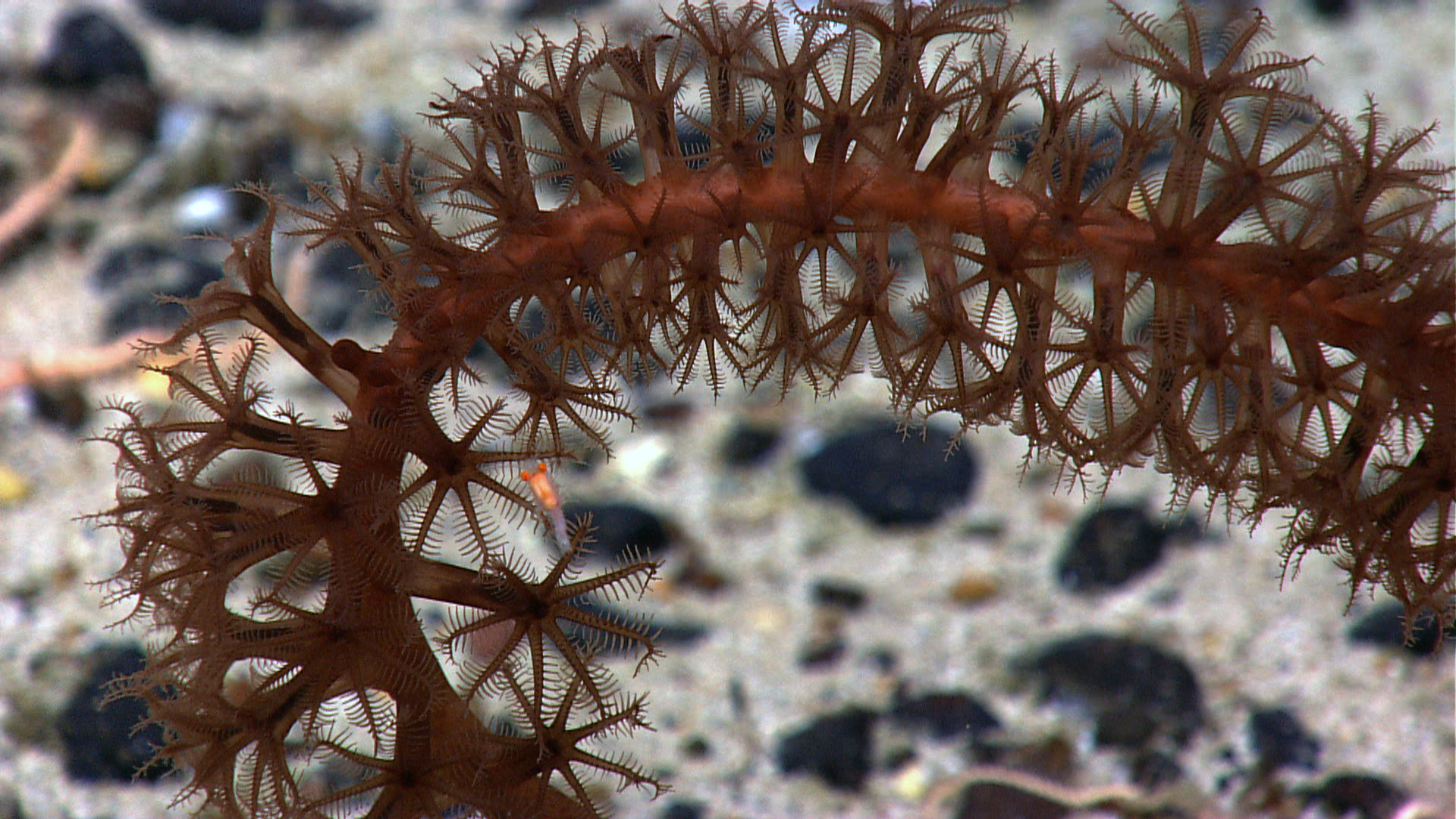 Close-up of a sea pen colony at 2023 meters depth on Retriever Seamount. Sea pens are octocorals and the characteristic eight pinnate tentacles are plainly visible in this image. The dark line running down below the tentacles of each polyp is the pharynx, connecting the mouth to the bag-like digestive cavity. A mysid shrimp (“possum shrimp”) is swimming by the colony.